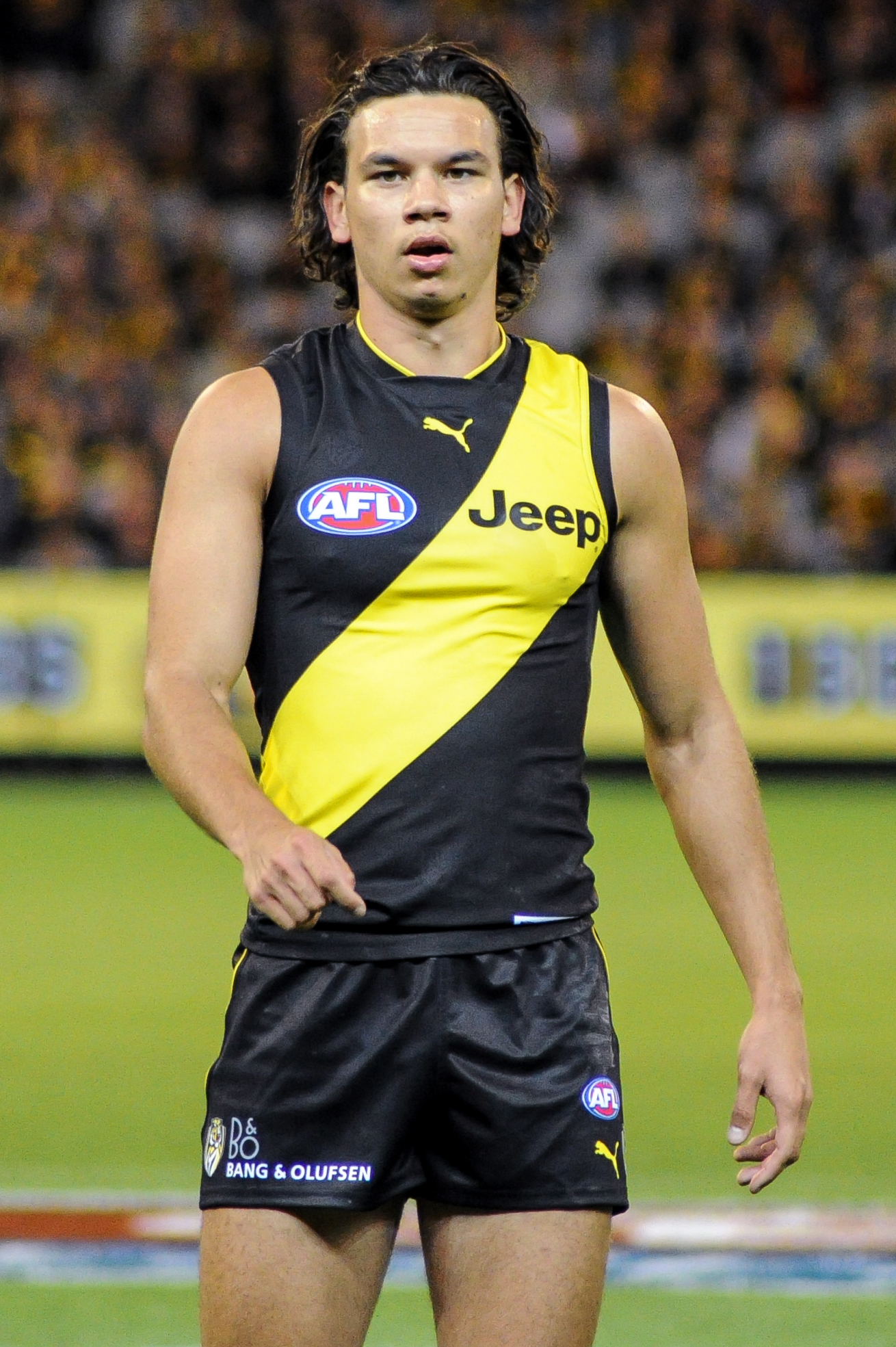 Daniel Rioli during the AFL round two match between Richmond and Collingwood on 30 March 2017 at the Melbourne Cricket Ground in Melbourne, Victoria.